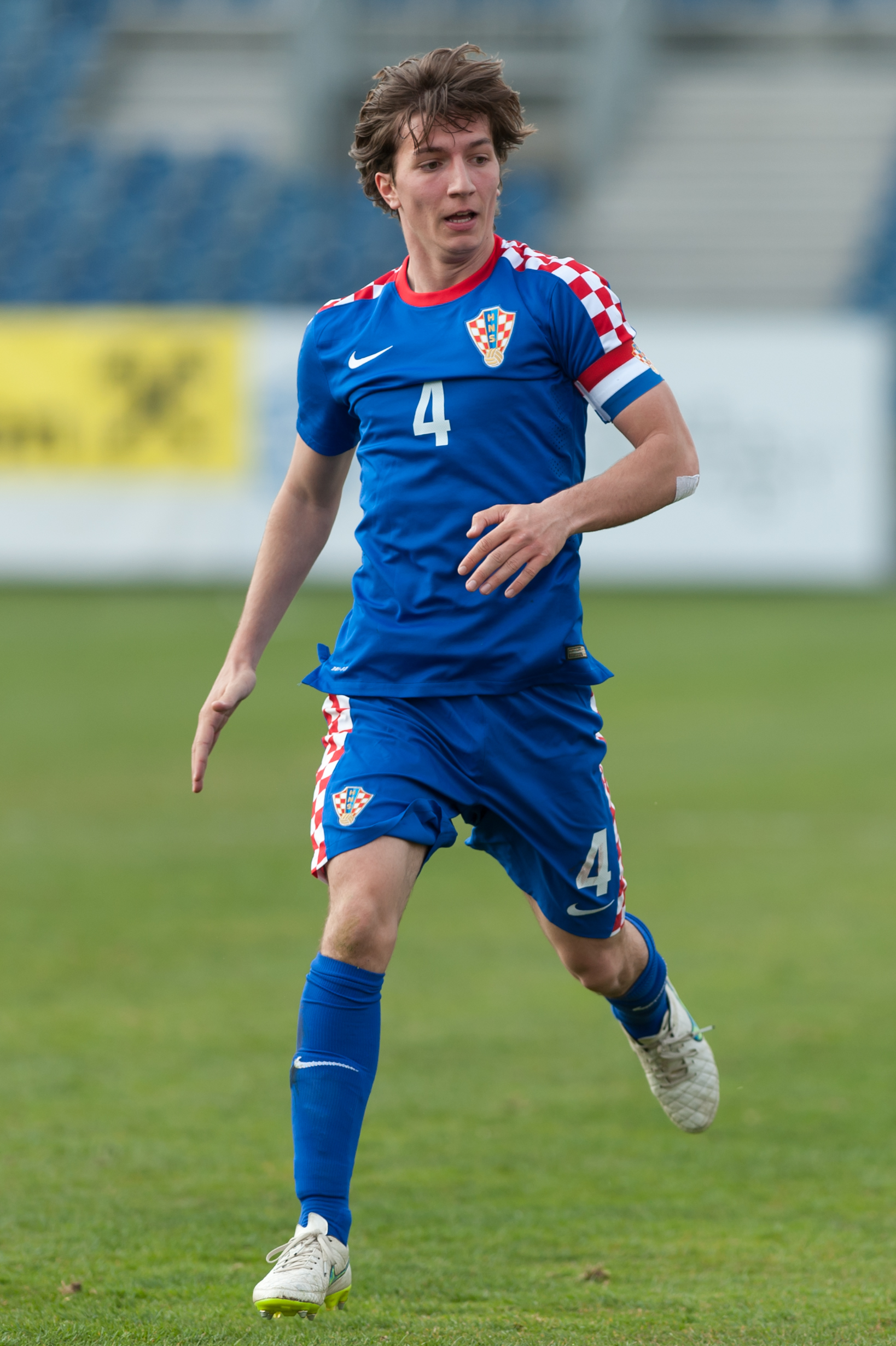 European Under-19 Championships 2015 Elite Round, Austria vs. Croatia, 28/03/2015 Wiener Neustadt, Lower Austria